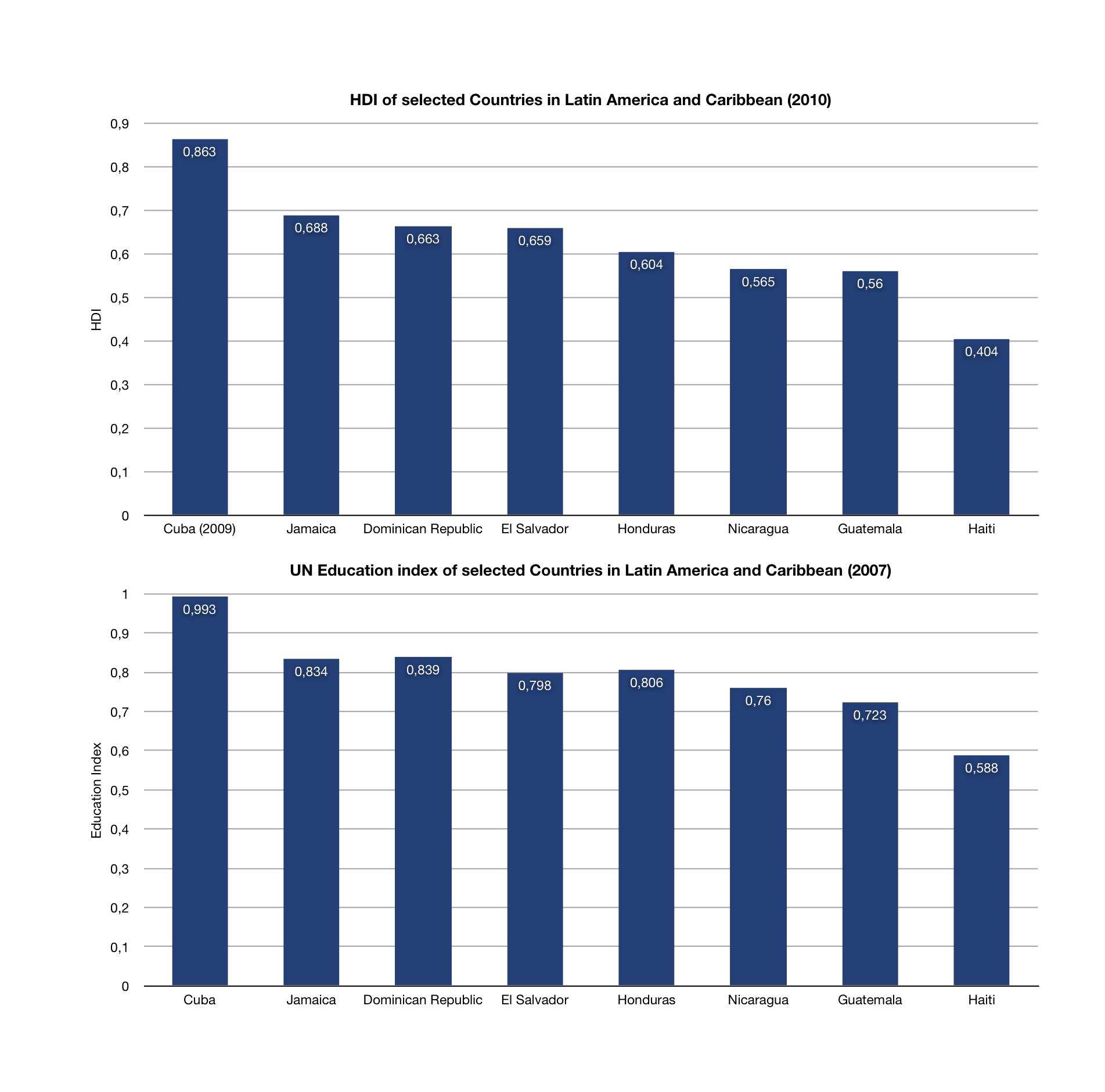 HDI and UN Education index of selected countries in Latin America and Caribbean. Data based on official UN-Statistics.